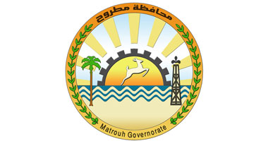 New Flags of Matrouh governorate